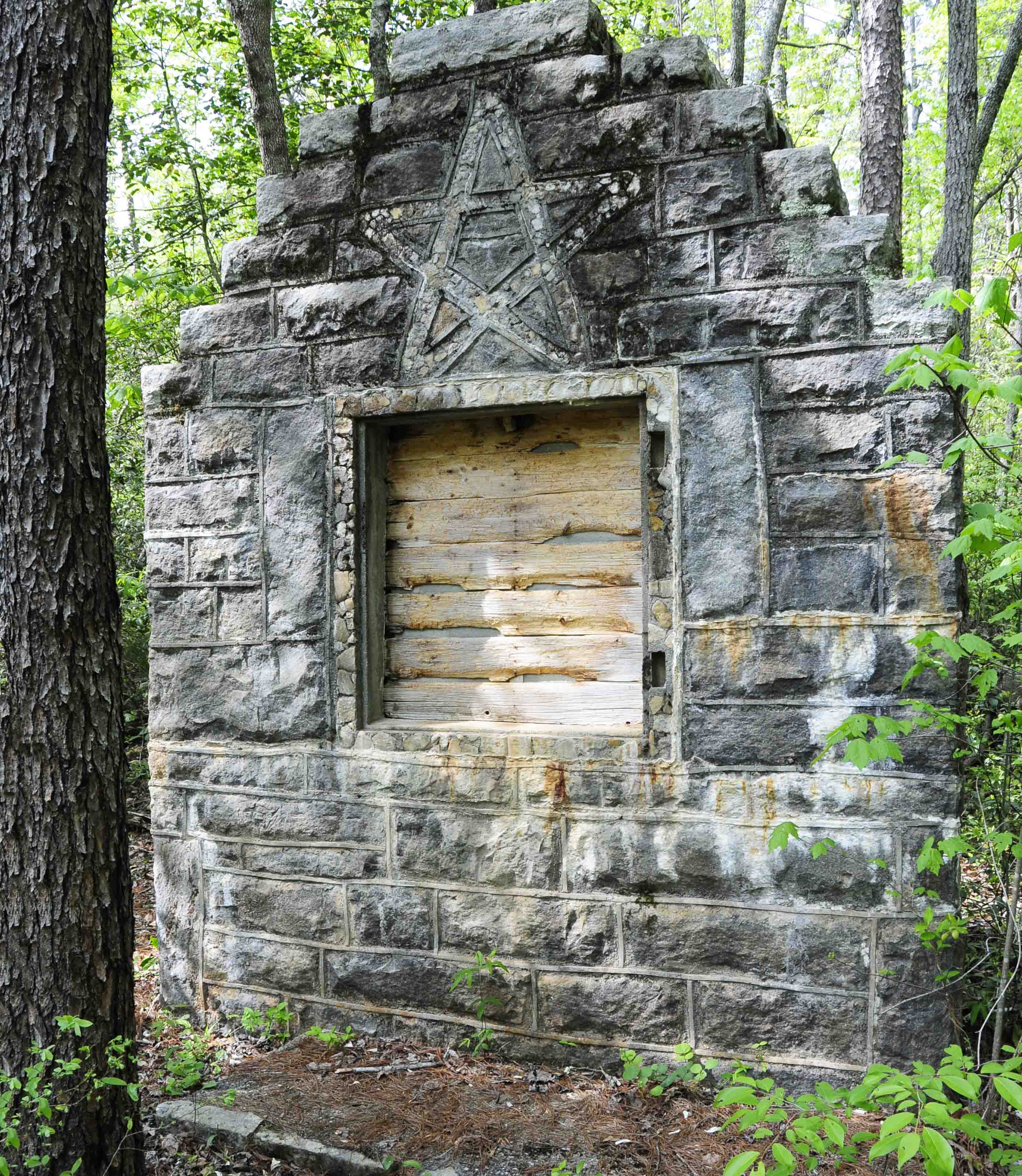 The Table Rock Civilian Conservation Corps Camp Site — a stone lodge the CCC restored. Historic district contributing property to the Table Rock State Park Historic District. Located within Table Rock State Park, Pickens County, South Carolina.